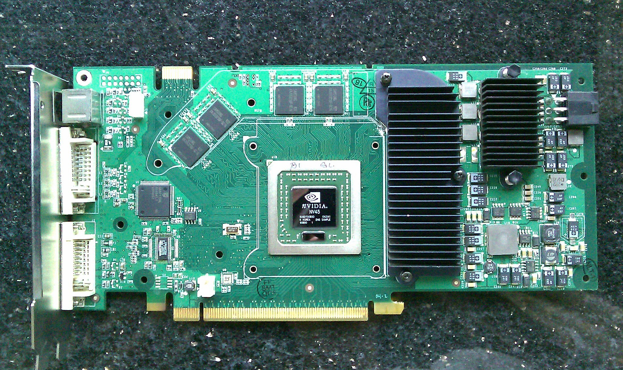 NVIDIA GeForce 6800 Ultra 512MB Engineering Sample P214-B01